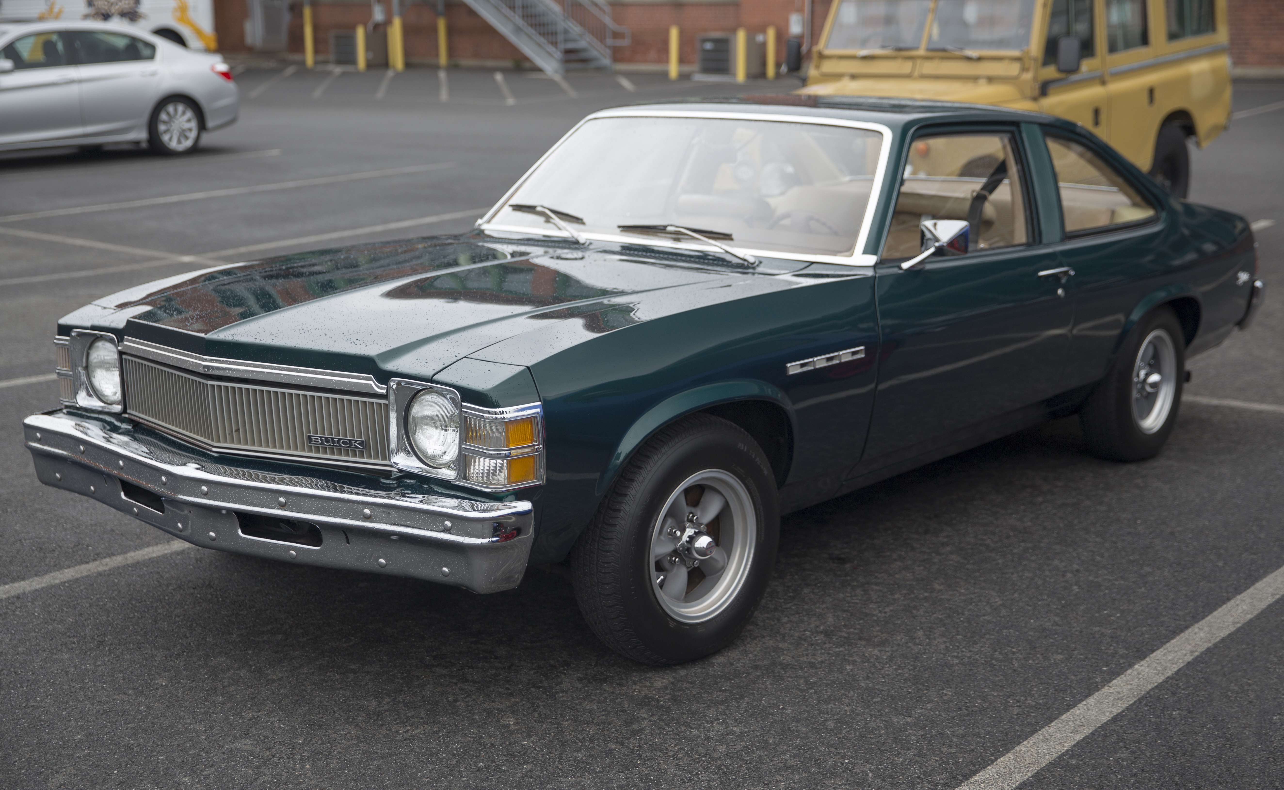 A 1977 Buick Skylark S at a "Pints & Pistons" event in Stratford, CT. The "S" was the bare-bones version, only available in this 2-door bodystyle and here with the base 231cuin V6 (3.8 liters) with one two-barrel carb and... wait for it... 110hp. Assembled in nearby Tarrytown, NY.